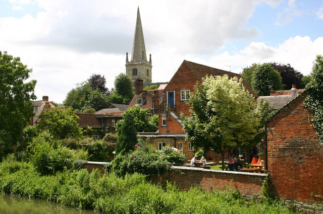 Buckingham Church Looking across the Great Ouse near Ford Street to Buckingham Church